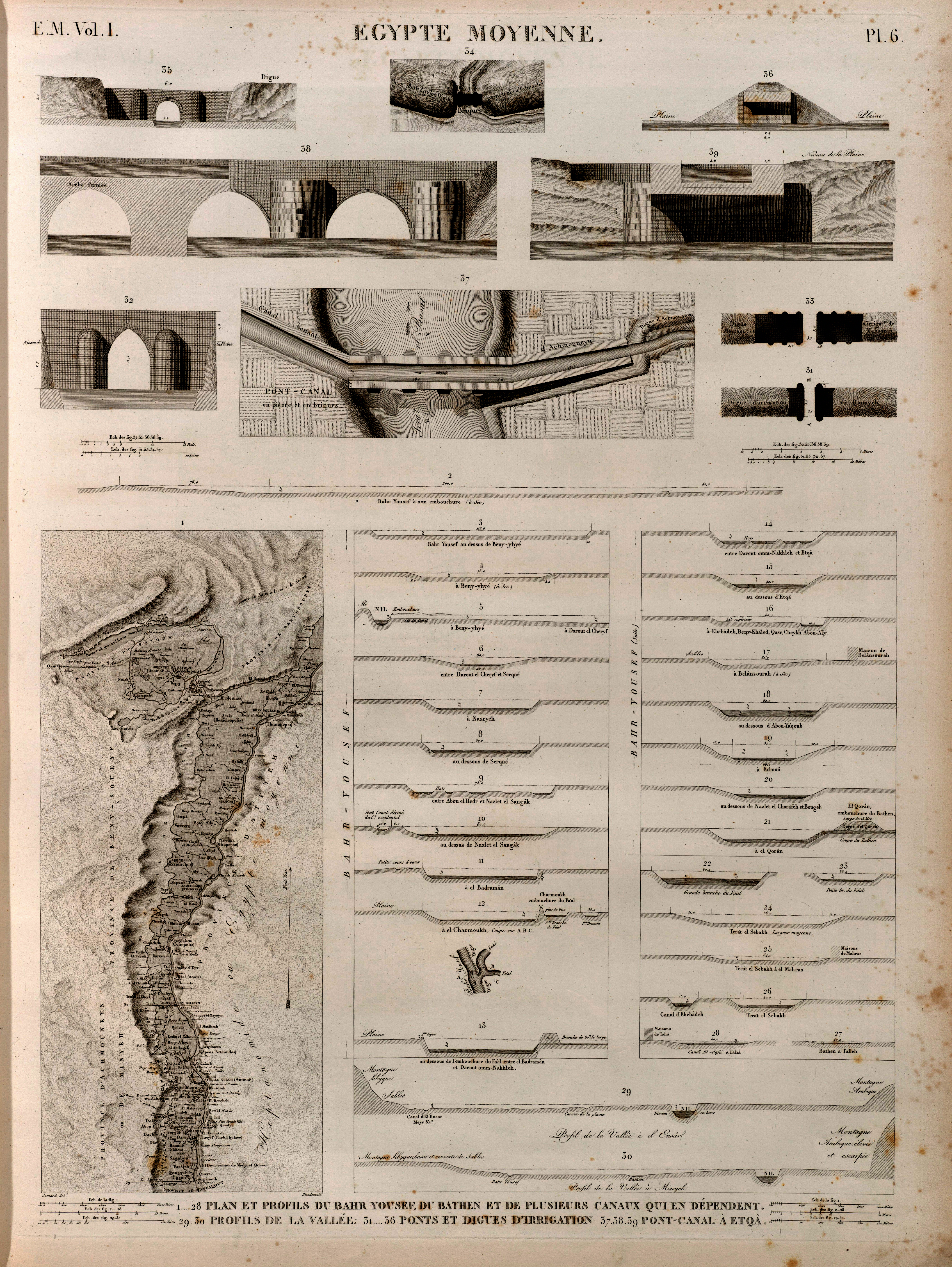 Égypte Moyenne. 1-28. Plan et profils du Bahr Yousef, du Bathen et de plusieurs canaux qui en dépendent; 29.30. Profils de la vallée; 31-36. Ponts et digues d'irrigation; 37-39. Pont-canal à Etqâ.